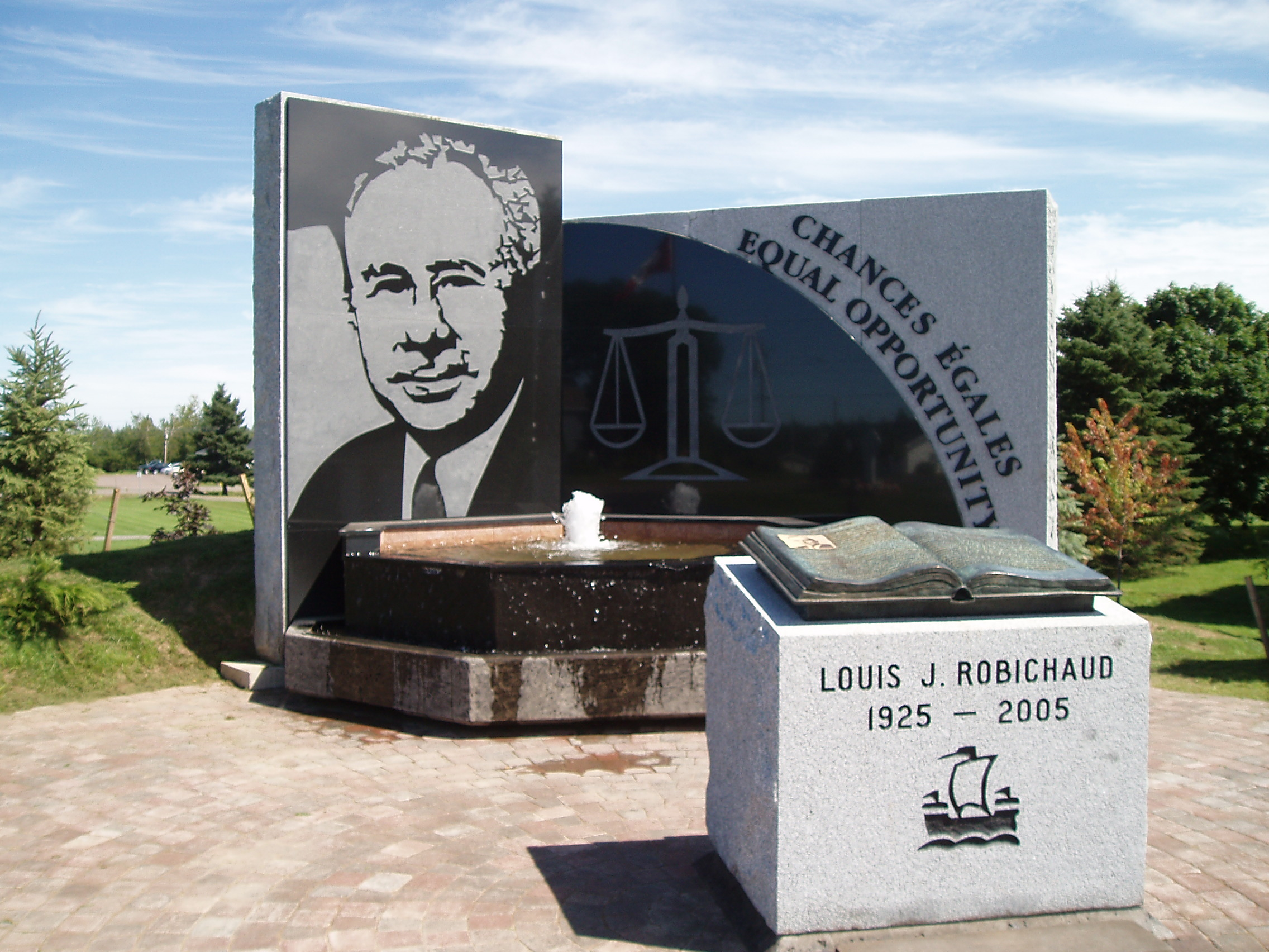 Memorial to Louis J. Robichaud; Author: Me / Source: My Camera / URL: Not Applicable / Fair Use Rationale: Not Applicable